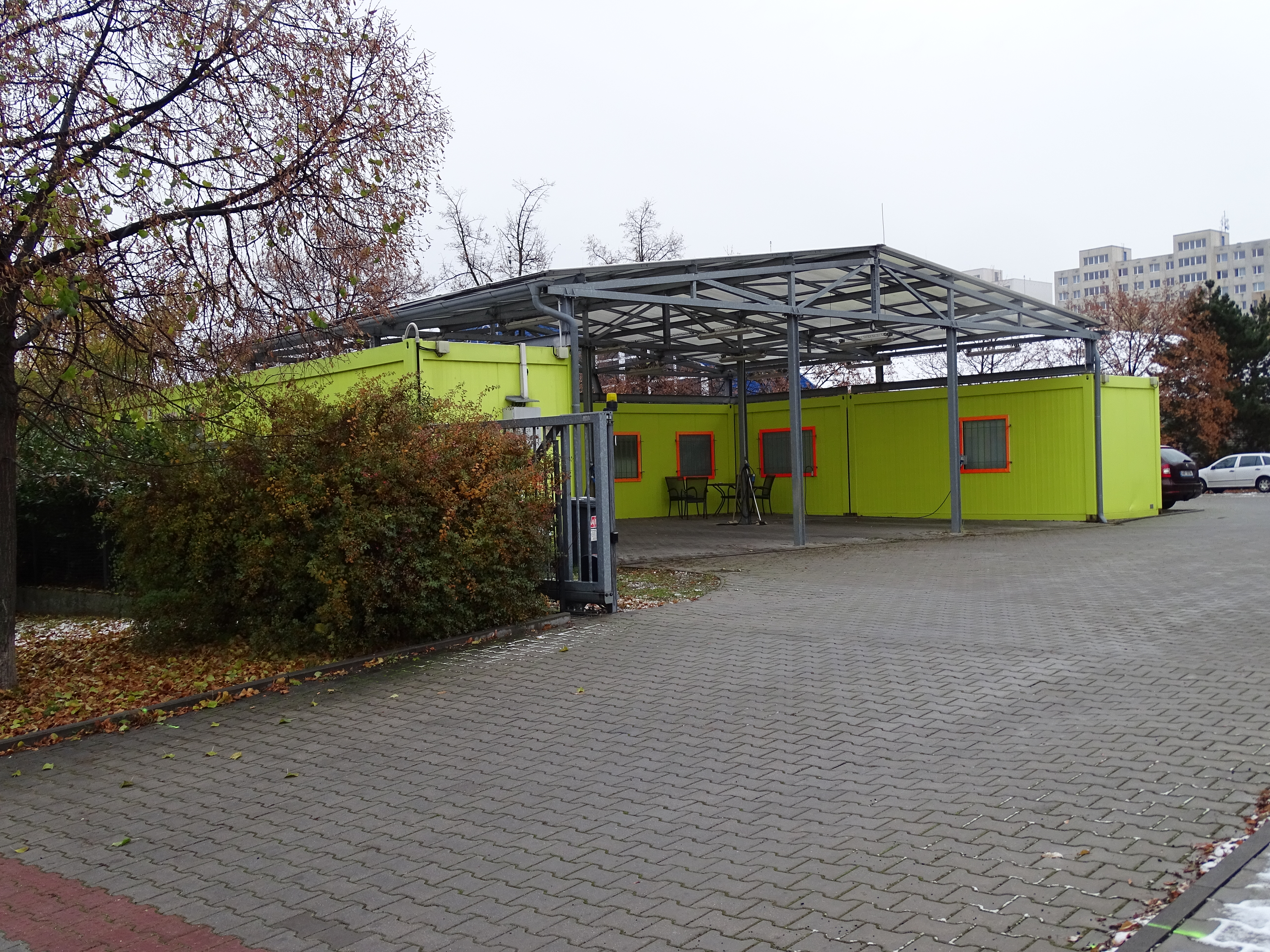 Prague-Chodov, Czechia. Markušova 1555/18, ambulance vehicles station.